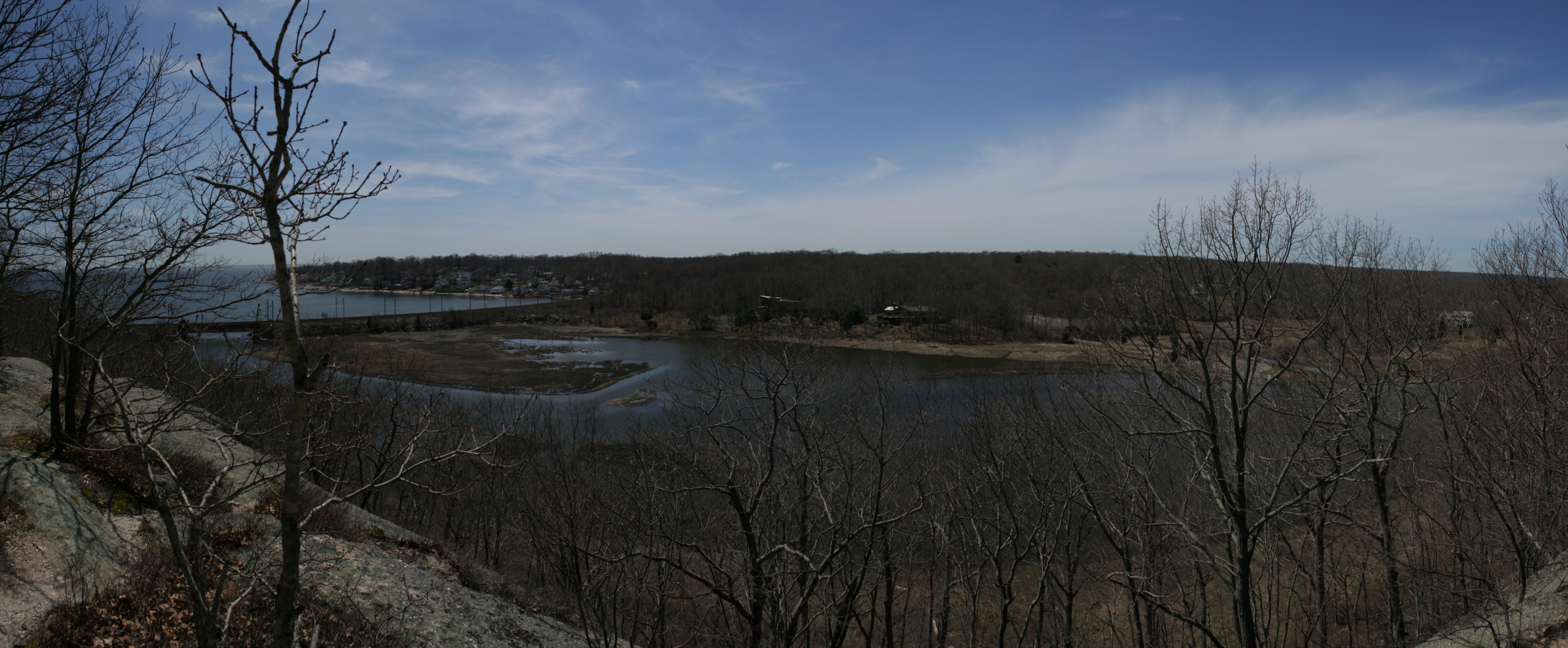 View from Tony's Nose Overlook at Rocky Neck State Park in East Lyme Connecticut, USA